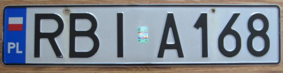 Polish car plate example from Ustrzyki Dolne